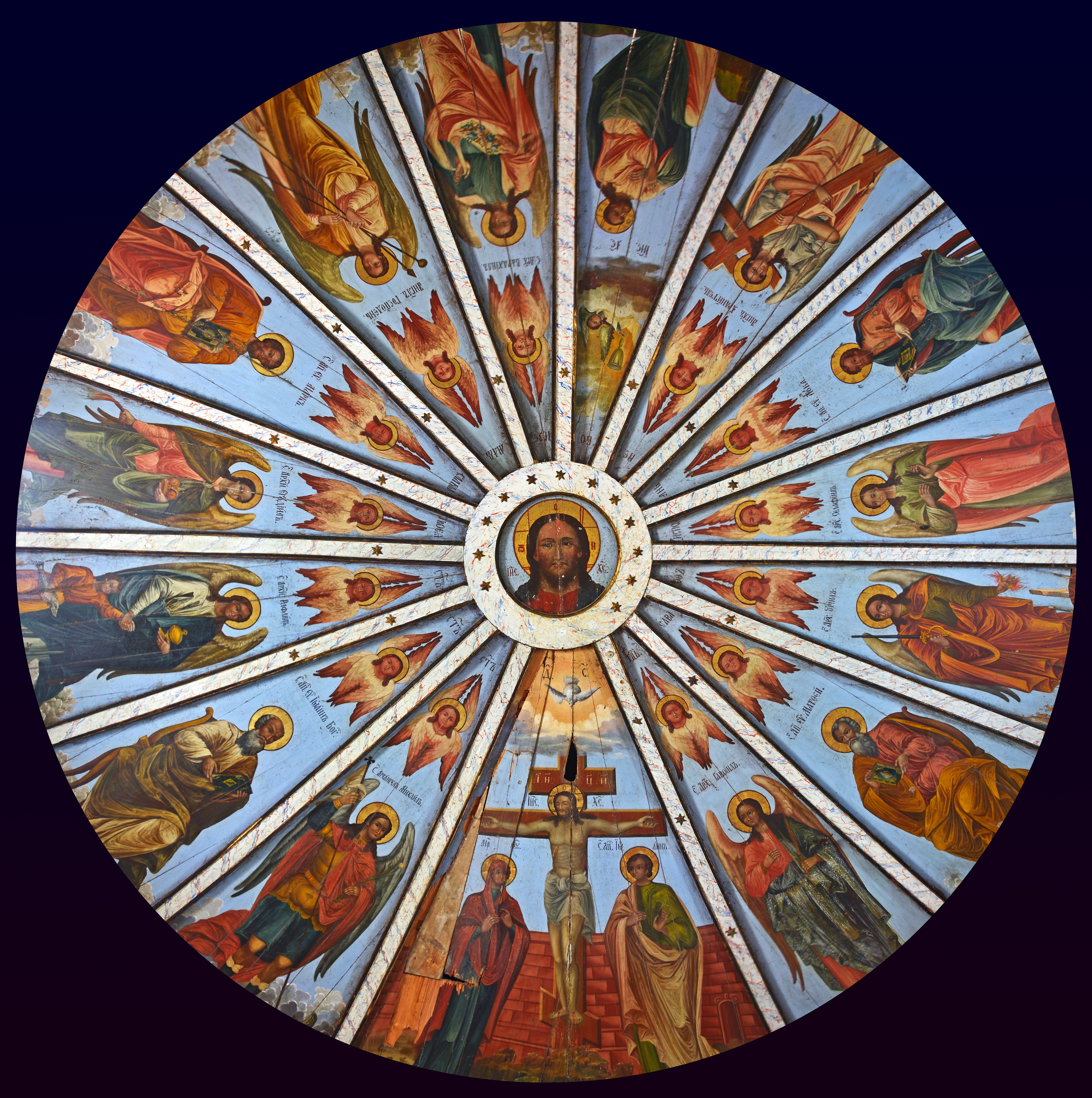 Nebo icon in Saint Michael church in Arkhangelo (Shelokhovskaya), Kargopolsky district, Arkhangelsk oblast, Russia